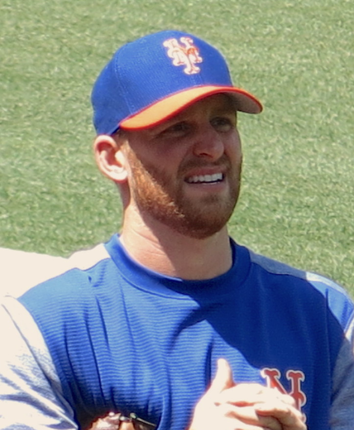 Neil Ramirez on May 21, 2017.